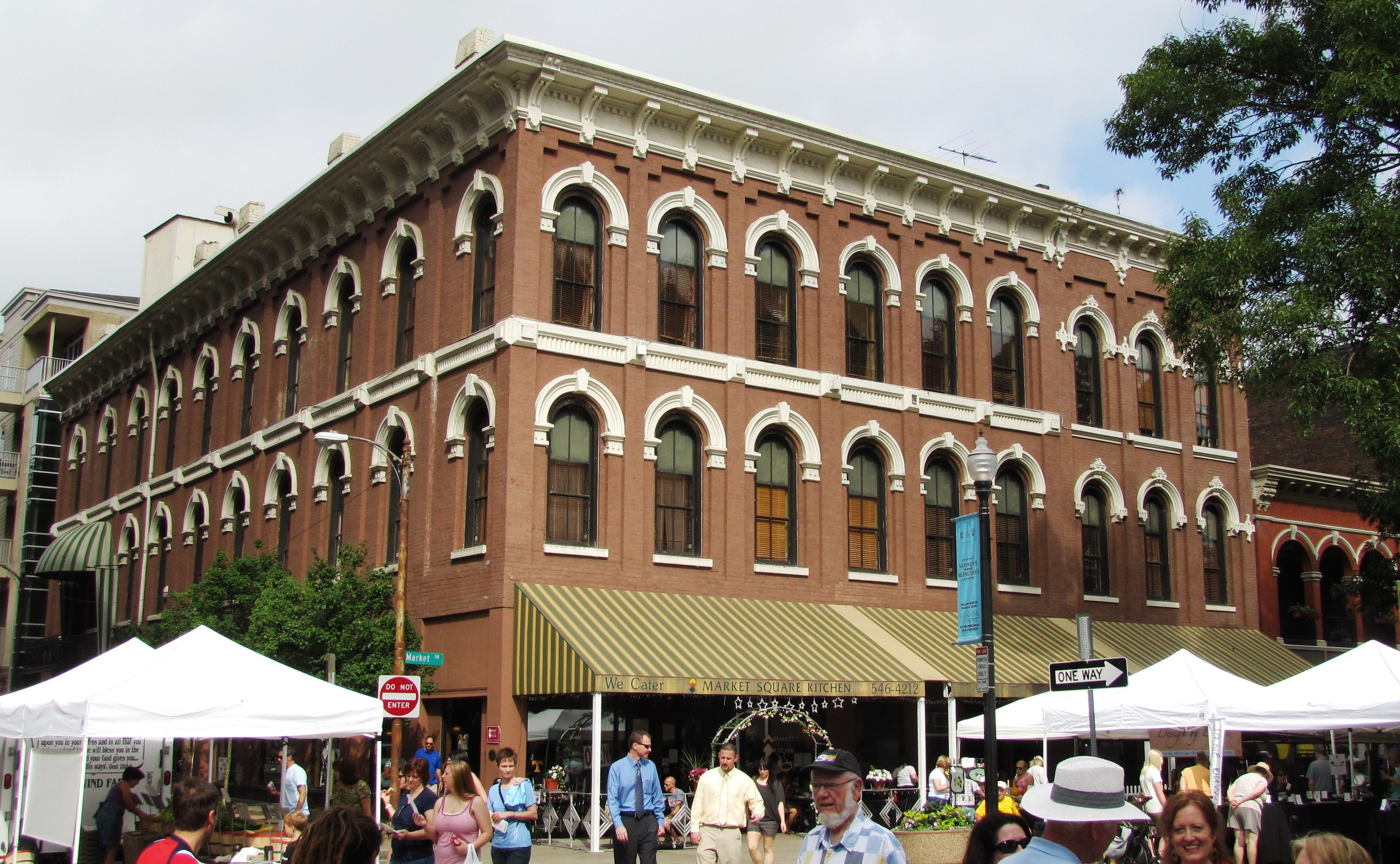 The Mall Building (1, 3, and 5 Market Square) in Knoxville, Tennessee, USA. Built in 1875 by noted confectionary and baker Peter Kern, this building is now listed on the National Register of Historic Places.